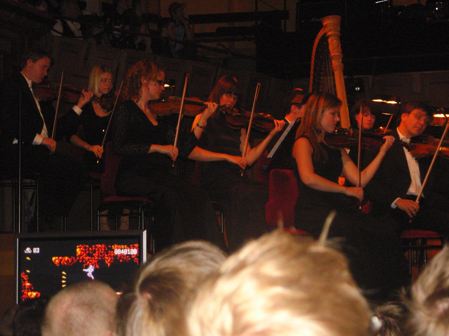 Turrican